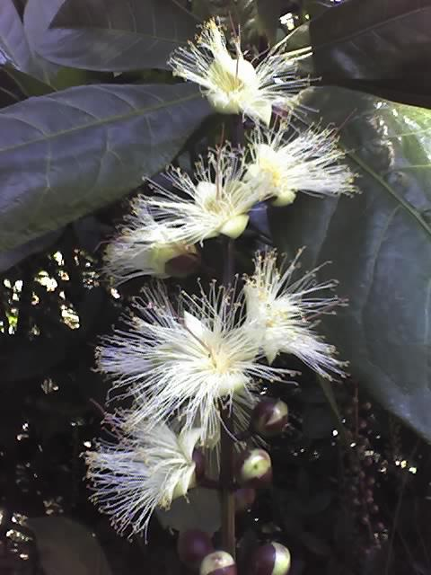 Barringtonia racemosa close-up of flowers